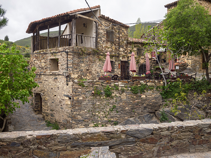 Patones de Arriba. Arquitectura negra de pizarra.